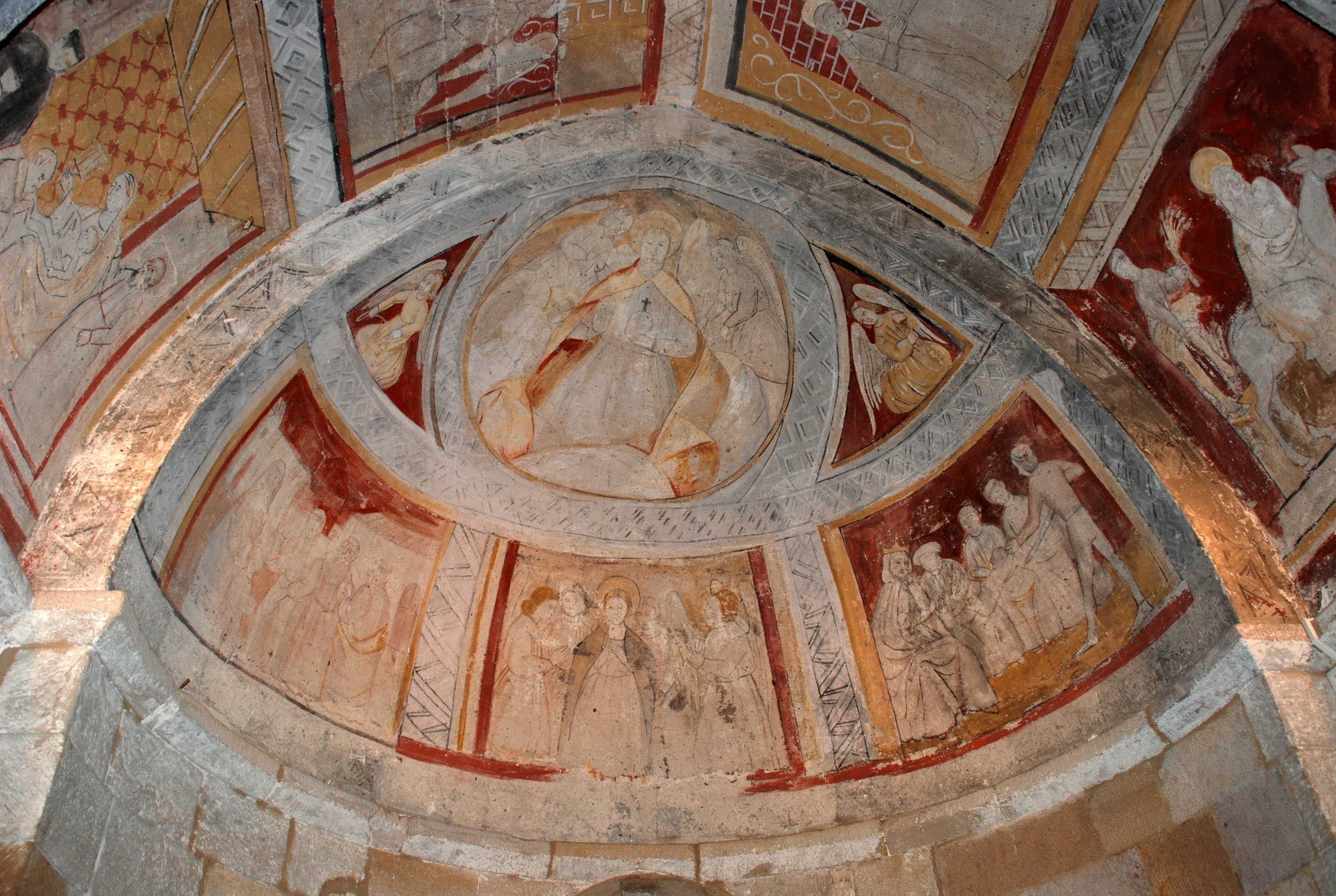 Gothic paintings of the church of San Cipriano in Revilla de Santullán (Palencia, Castile and León).